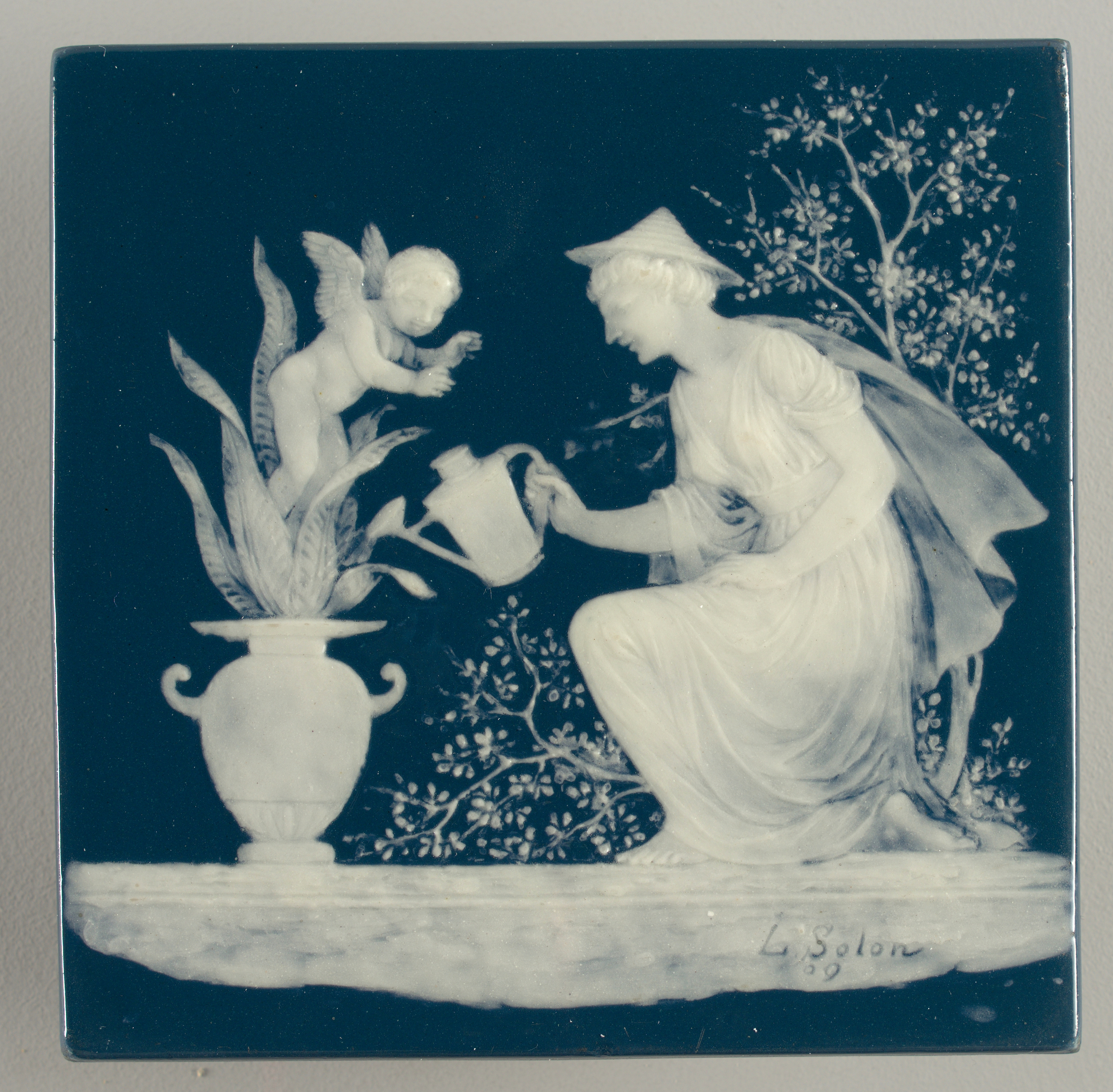 Square with white decoration on greenish-blue ground consists of a kneeling woman wearing conical hat, long robe, watering a plant in classical vase at left, from which a cherub rises.